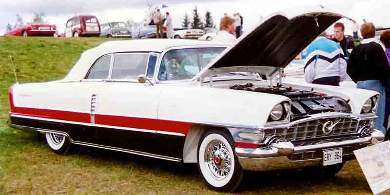 Packard Caribbean 5588 Convertible 1955